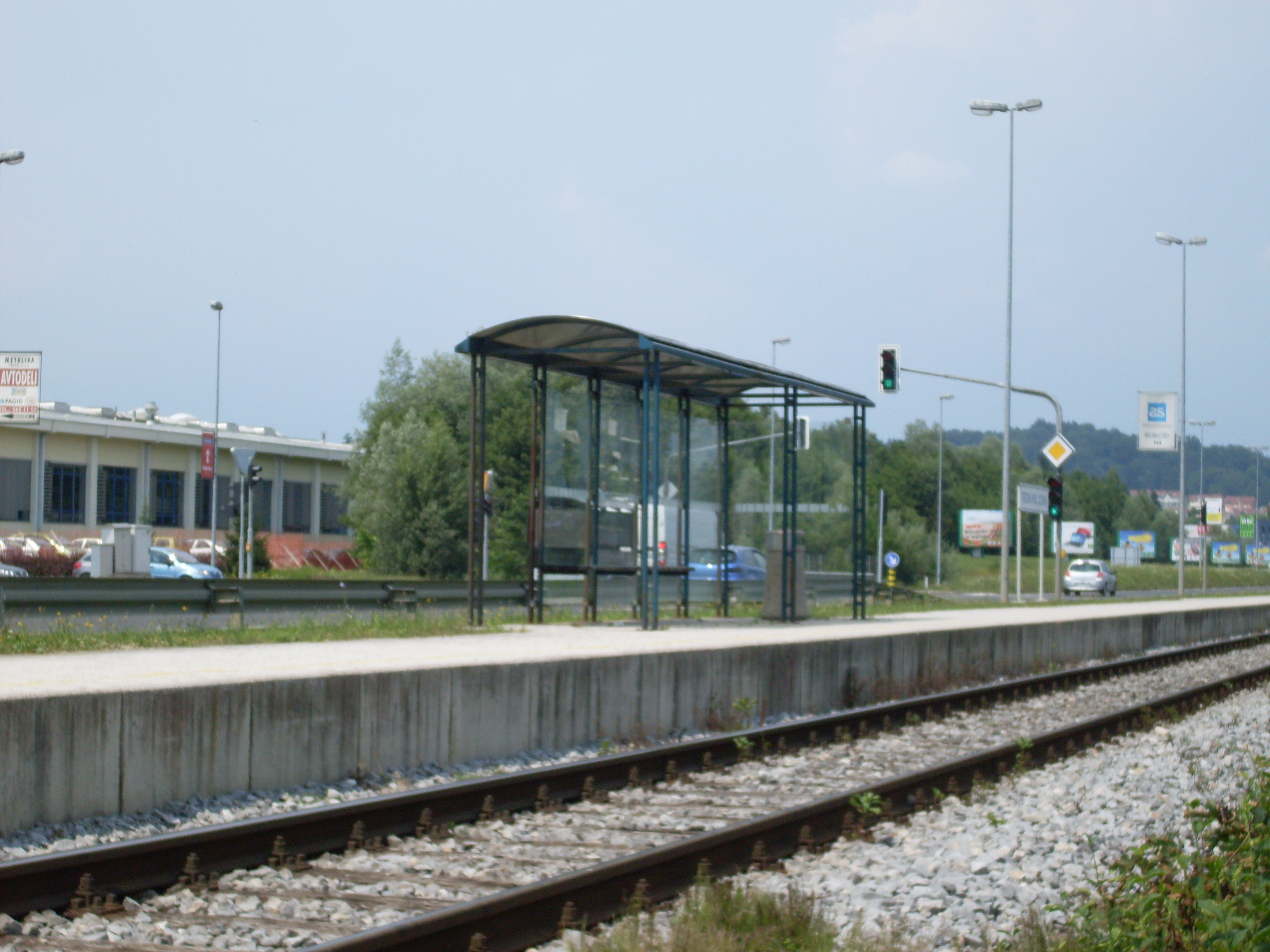 Railway halt Trzin industrijska cona, located in the handicraft and industrial zone of Trzin, Slovenia